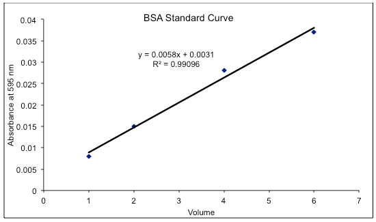 Standard curve of absorbance vs concentration for a BSA axperiment